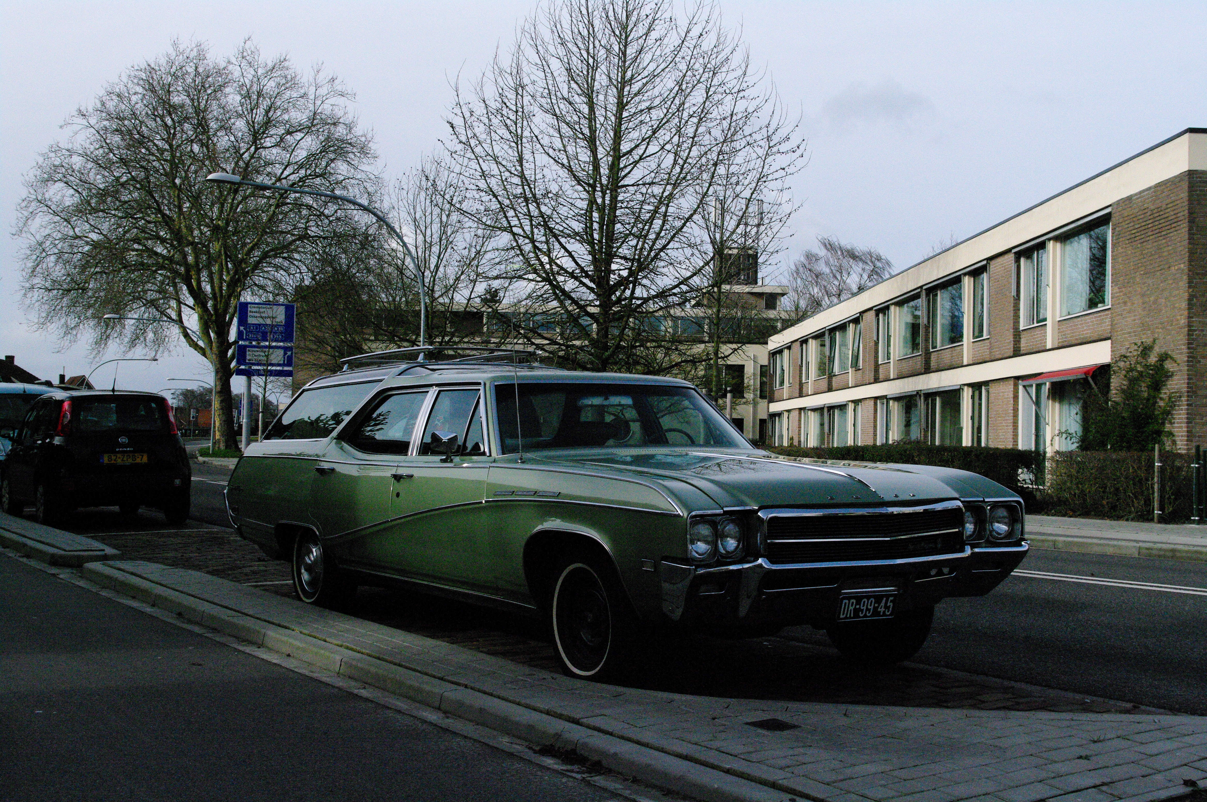 1969 Buick Sportwagon